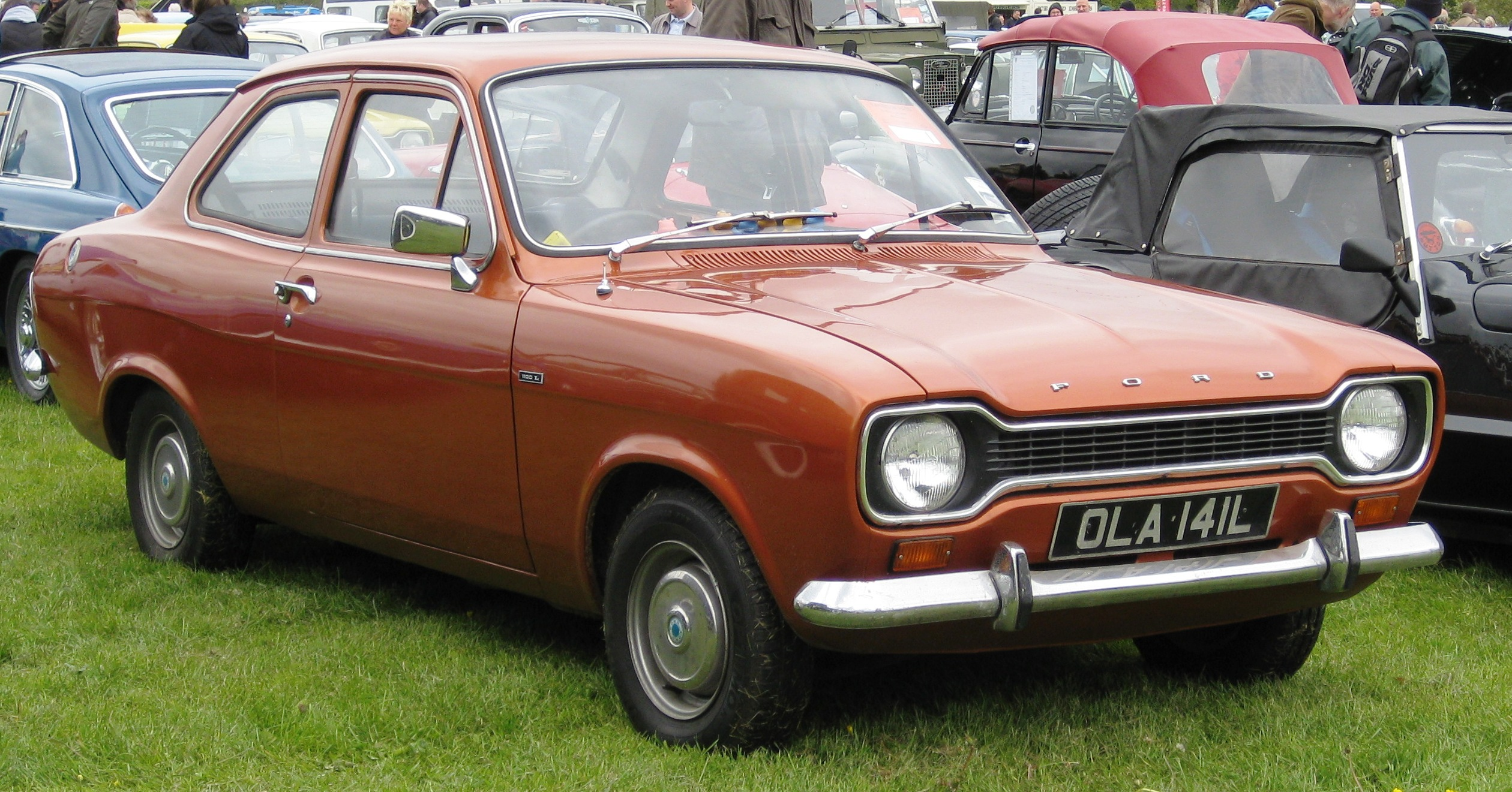 Ford Escort Mk I (1972)